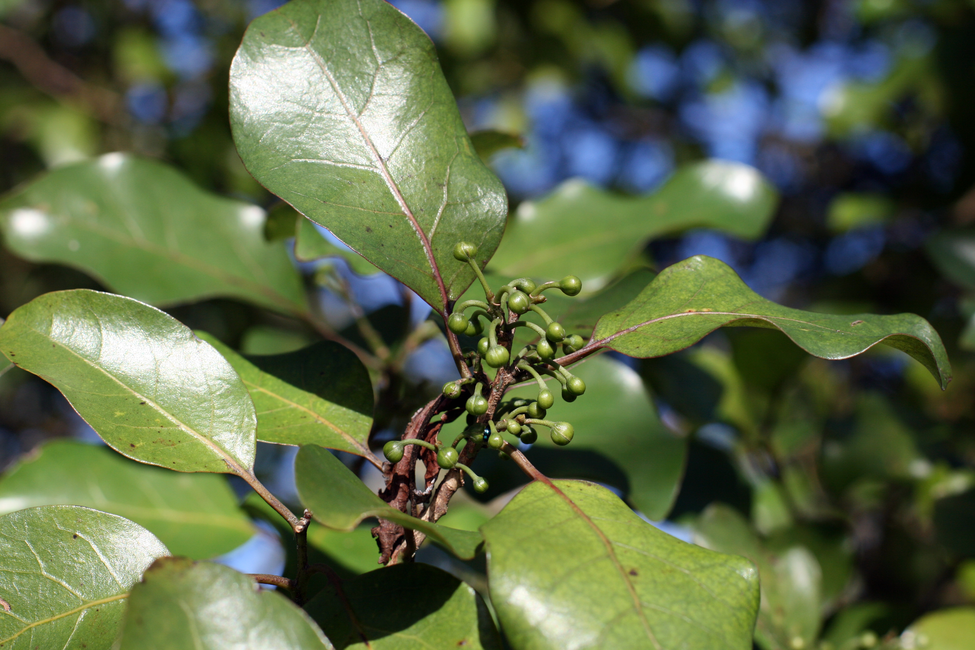 Mangeao, Litsea calicaris, Auckland, New Zealand, foliage, with young flower buds